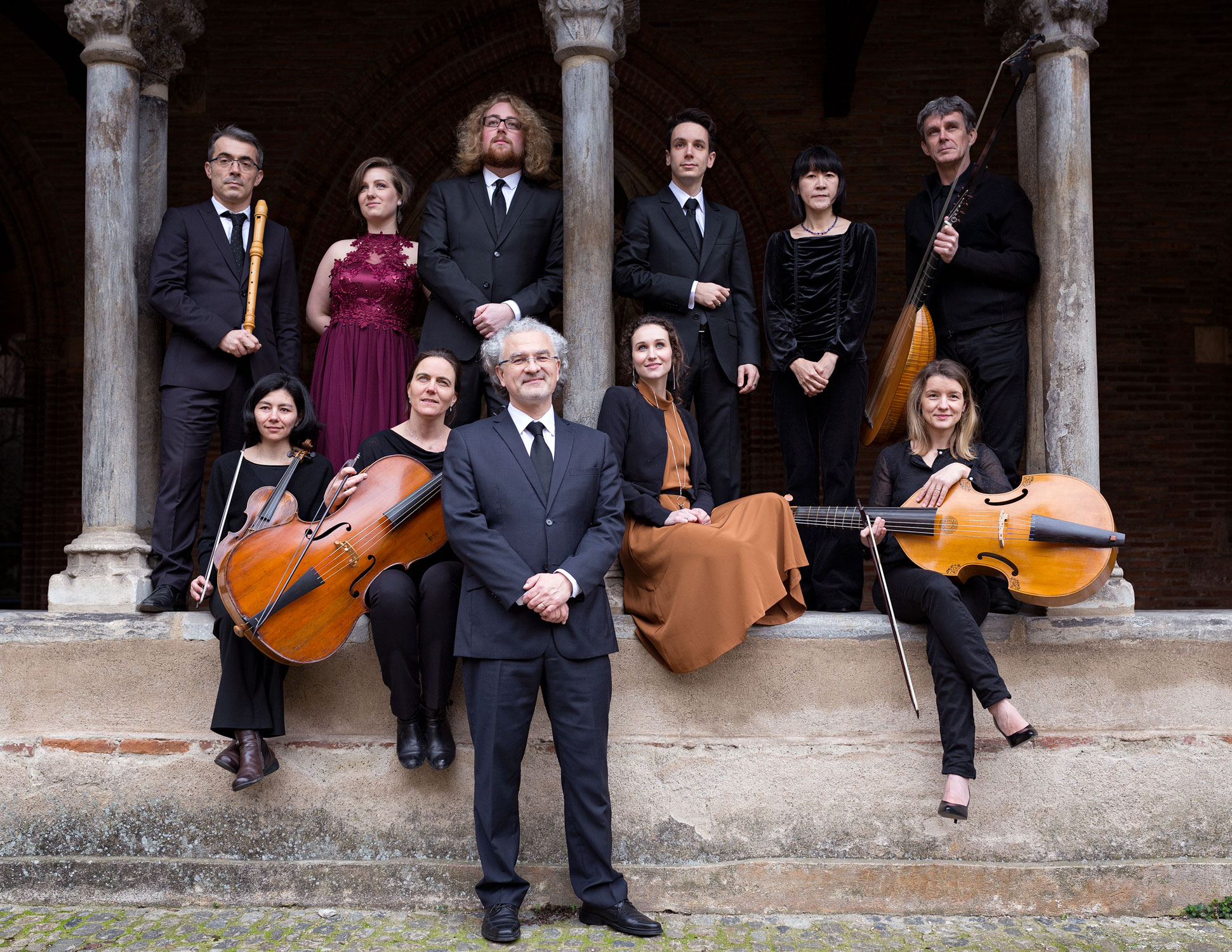 Official photo of the ensemble Antiphona, made in 2018 at the Musée des Augustins in Toulouse